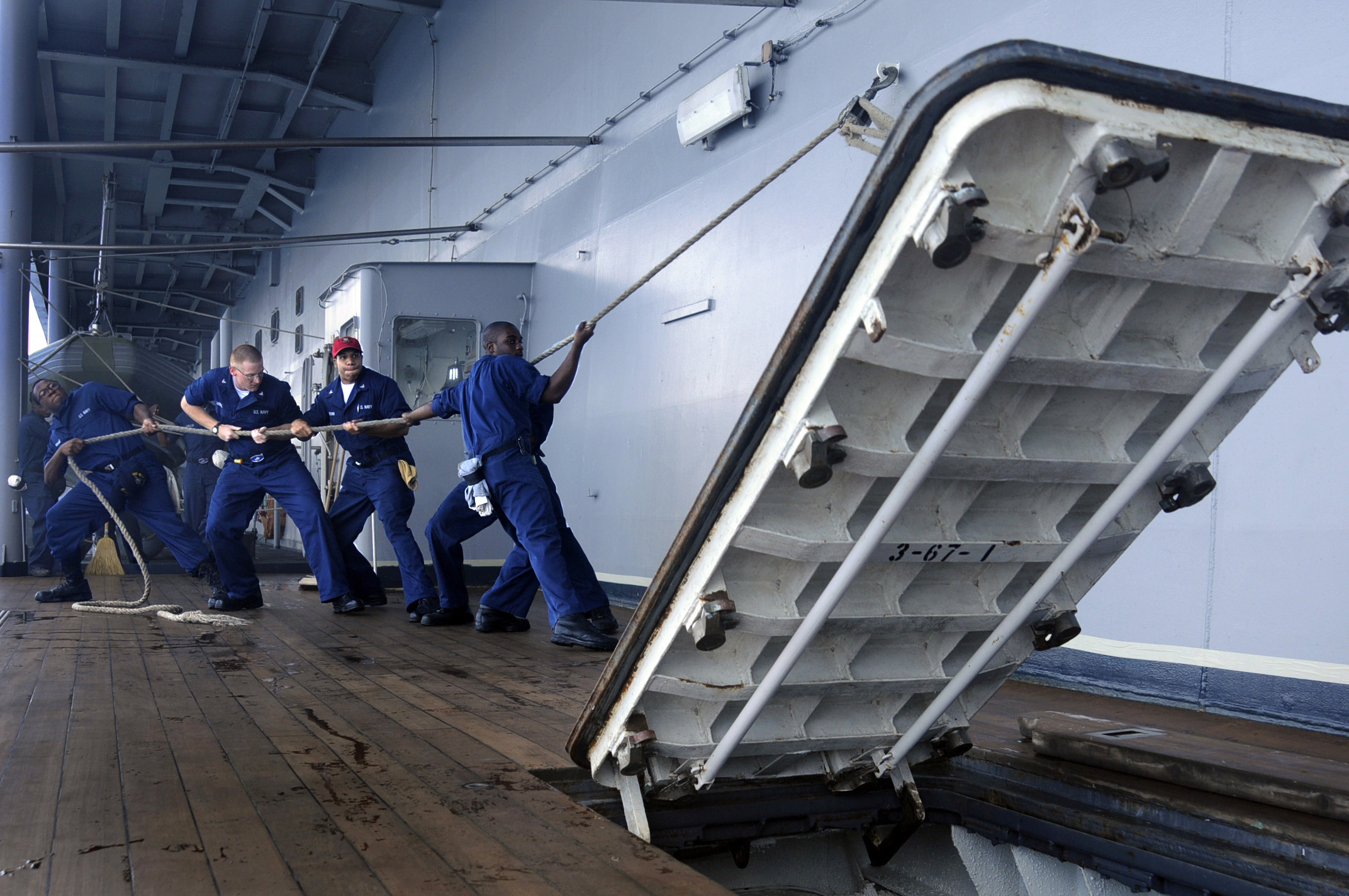 PACIFIC OCEAN (Aug. 15, 2008) Sailors assigned to the engineering repair division aboard the amphibious command ship USS Blue Ridge (LCC 19) raise an external hatch to perform maintenance on the watertight gasket and moving parts. Blue Ridge is the flagship for Commander, U.S. 7th Fleet. (U.S. Navy photo by Mass Communication Specialist 2nd Class Peter D. Lawlor/Released)